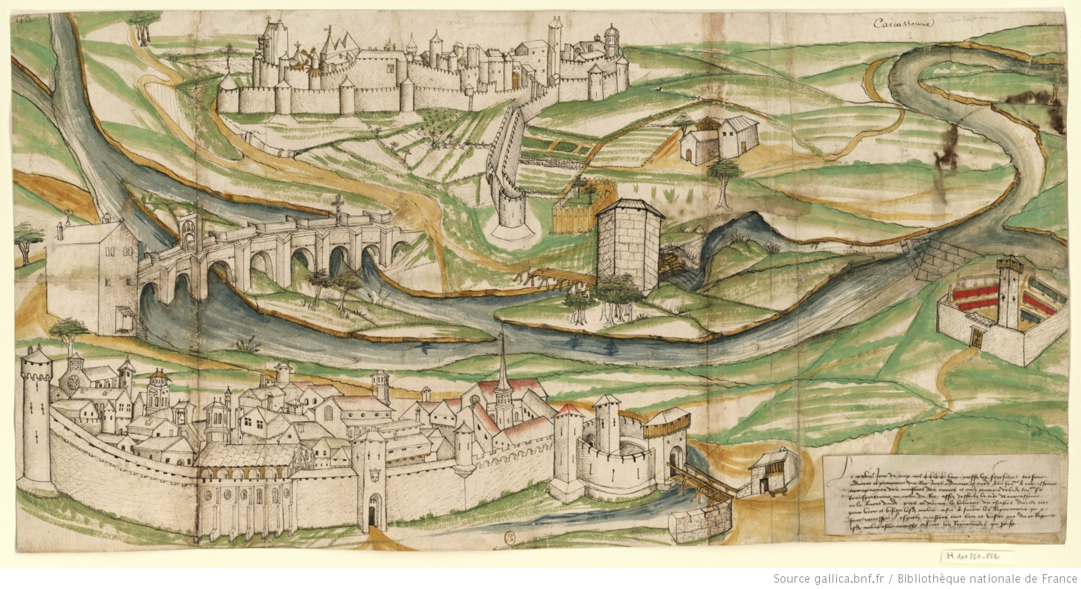 A painting from 1462 that influenced Viollet-le-Duc's restoration work.